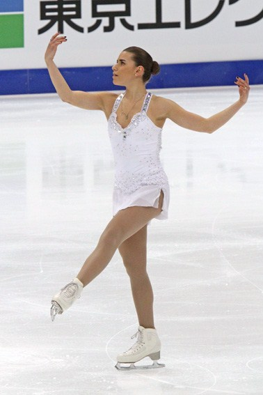 Cynthia Phaneuf at the 2011 Four Continents Championships.